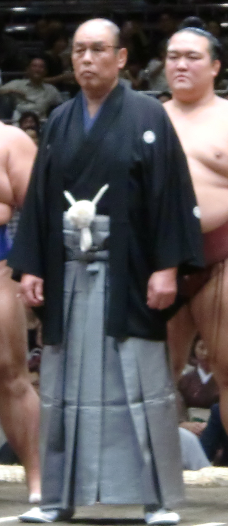 taken at Sept 2011 tournament